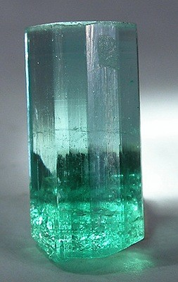 Beryl (Var.: Emerald) Locality: Muzo Mine, Muzo, Vasquez-Yacopí Mining District, Boyacá Department, Colombia (Locality at ) Size: 1.3 x 0.6 x 0.6 cm. An incredibly fine 5-carat emerald crystal, that has it all: bright grass-green color, glassy luster, a fine termination, and most of all, TOP gemminess.